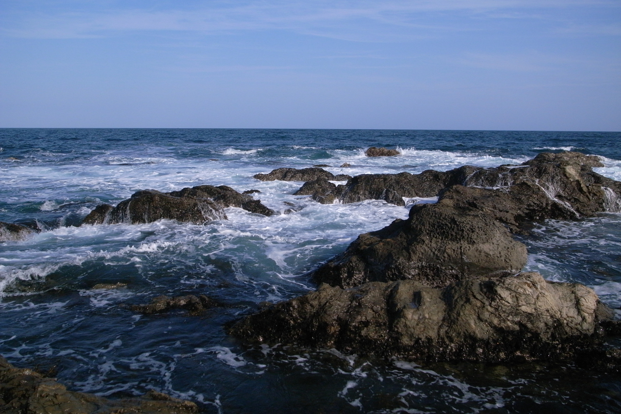 Coast in Emi, Kamogawa, Chiba, Japan.Ricoh GR Digital II